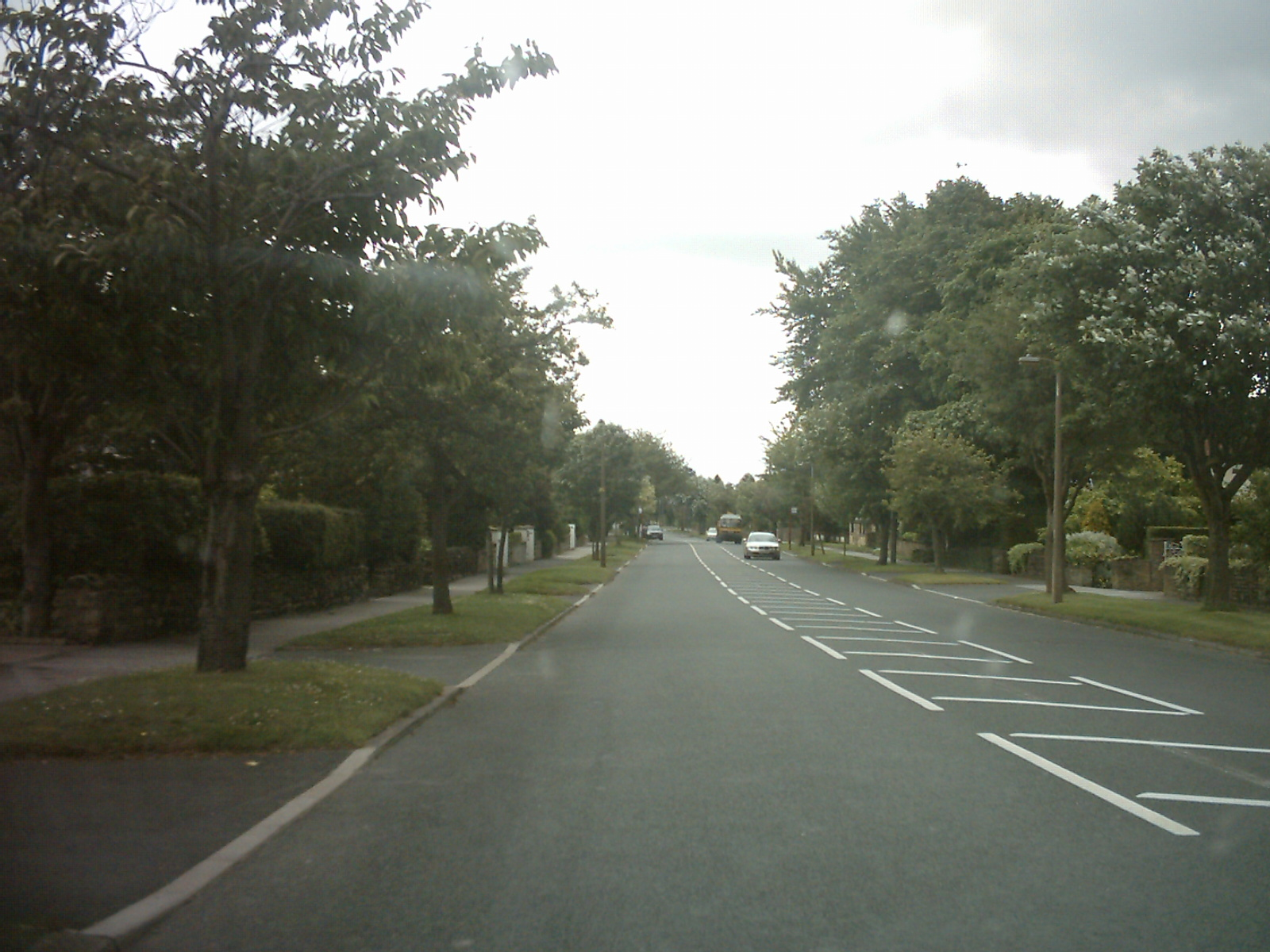 Alwoofley Lane, Alwoodley, Leeds